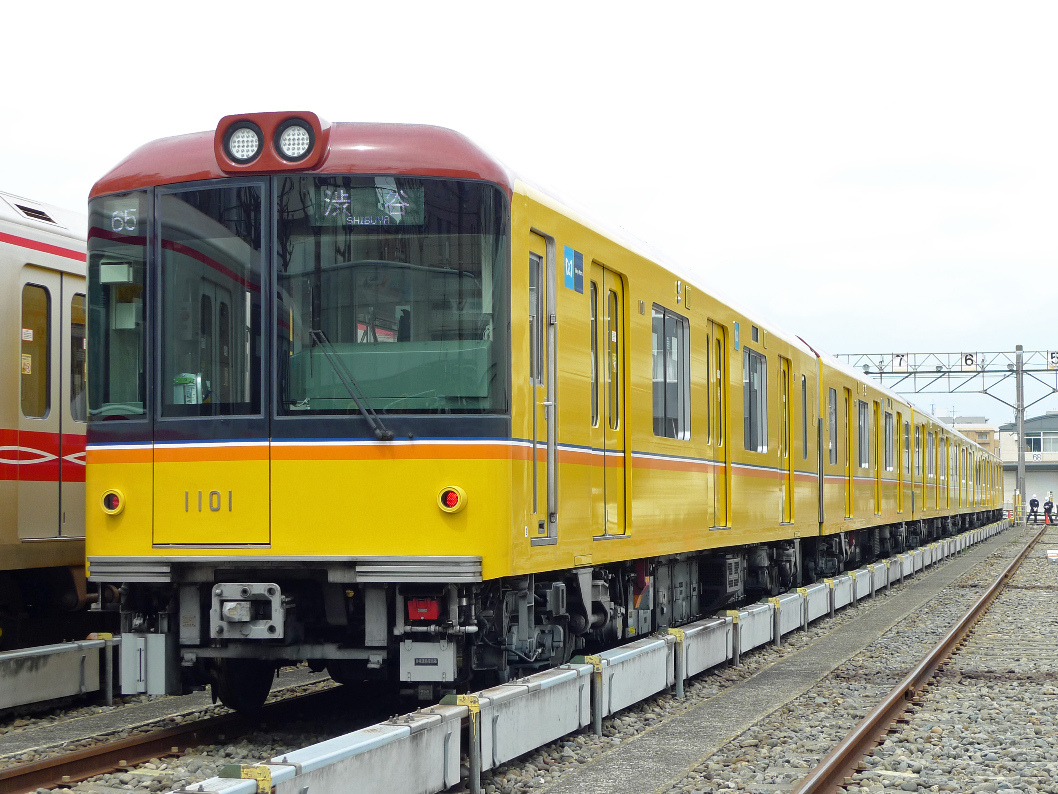 Tokyo Metro 1000 series EMU set 1101 at Nakano Depot in Tokyo